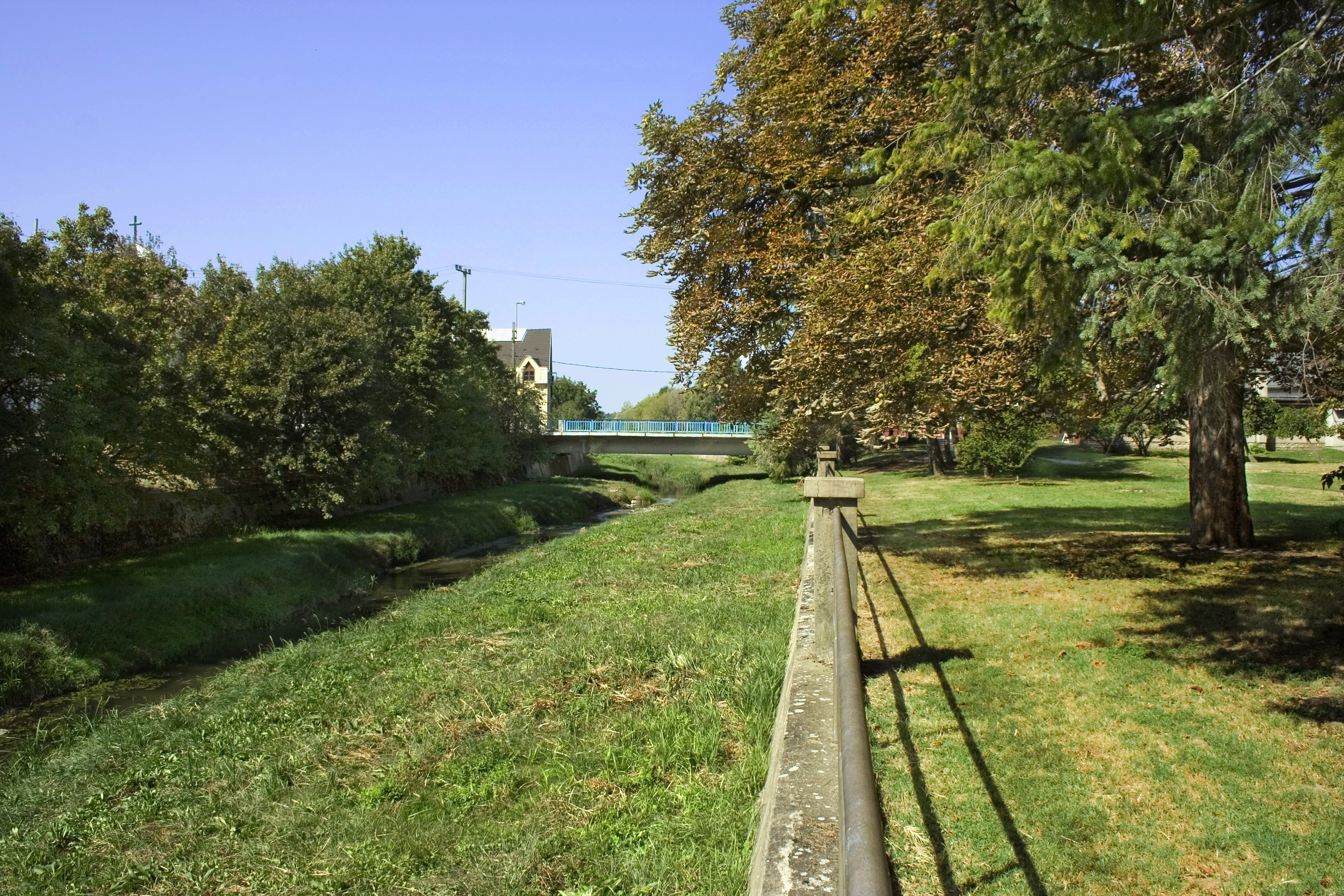 Kaposvár, Kapos River floodplain, Hungary